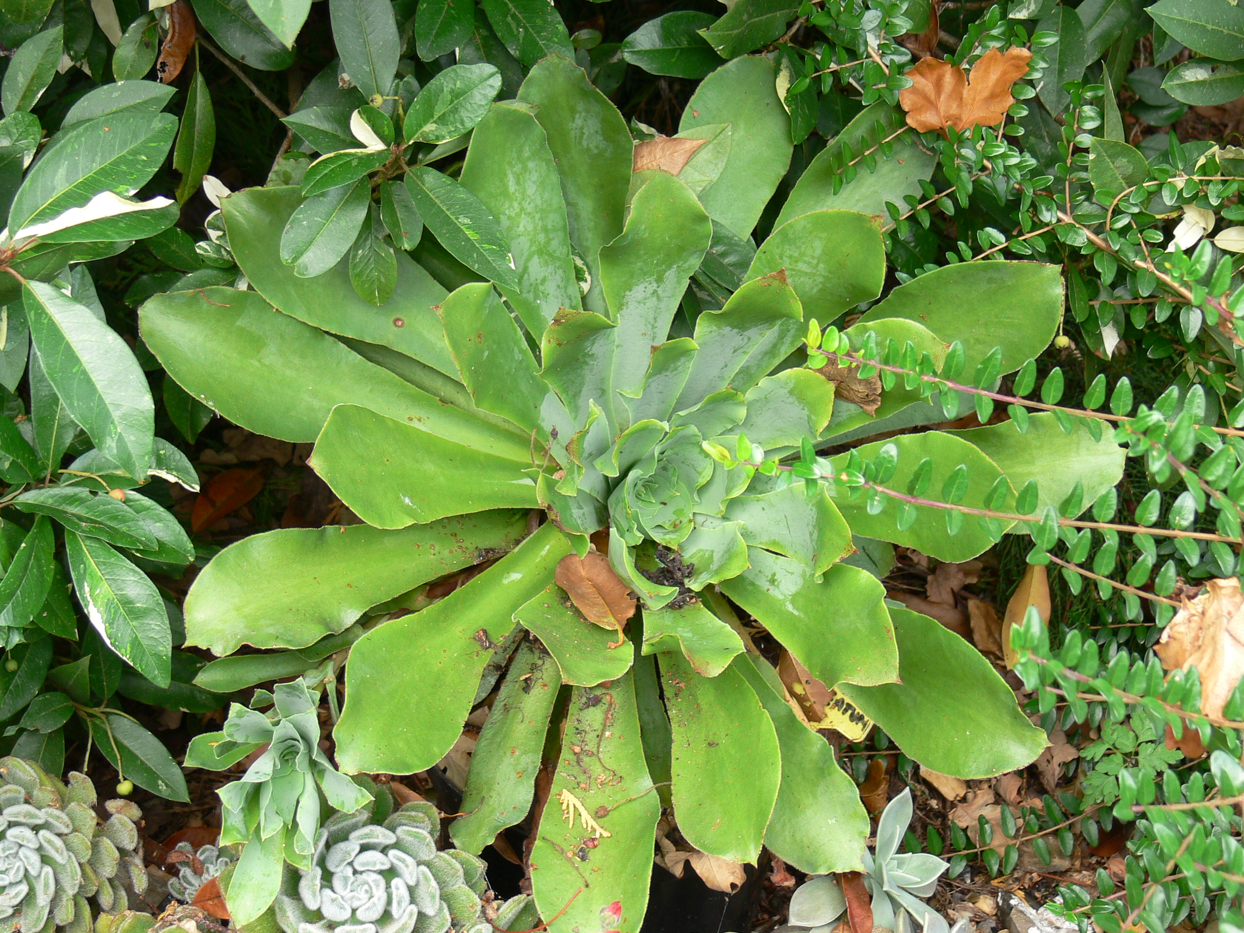 Aeonium Cuneatum